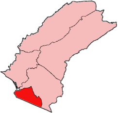 Map of Grand Cape Mount County, Liberia showing Commonwealth District; created with the GIMP. Made by User:Acntx.